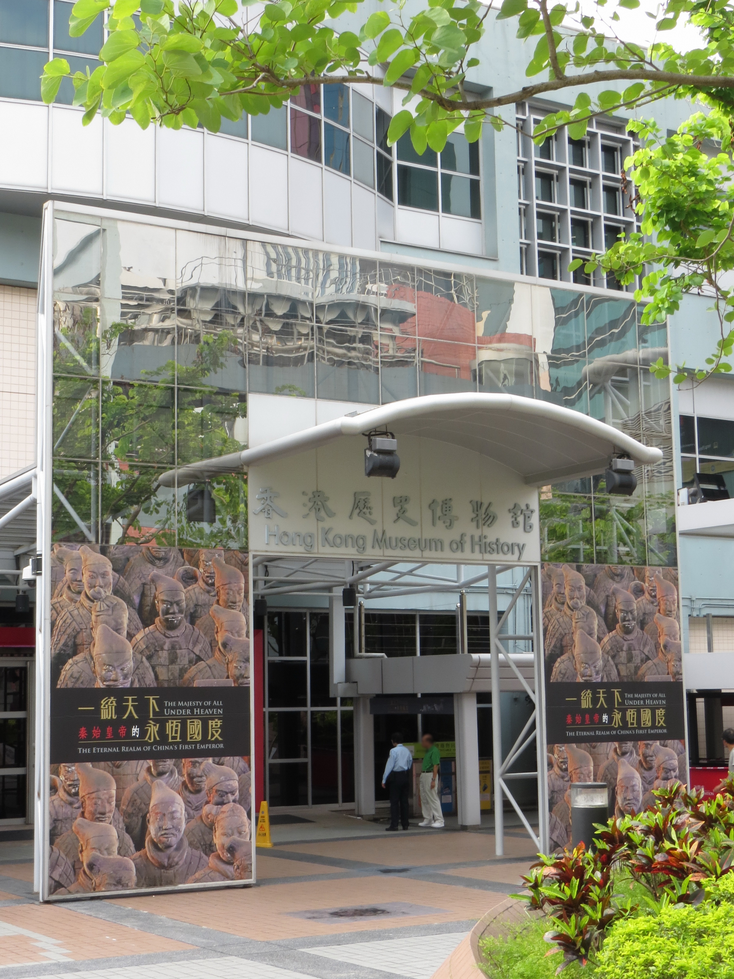 Main entrance of the Hong Kong Museum of History. The posters were showing the special exhibition "The Majesty of All Under Heaven : The Eternal Realm of China's First Emperor".